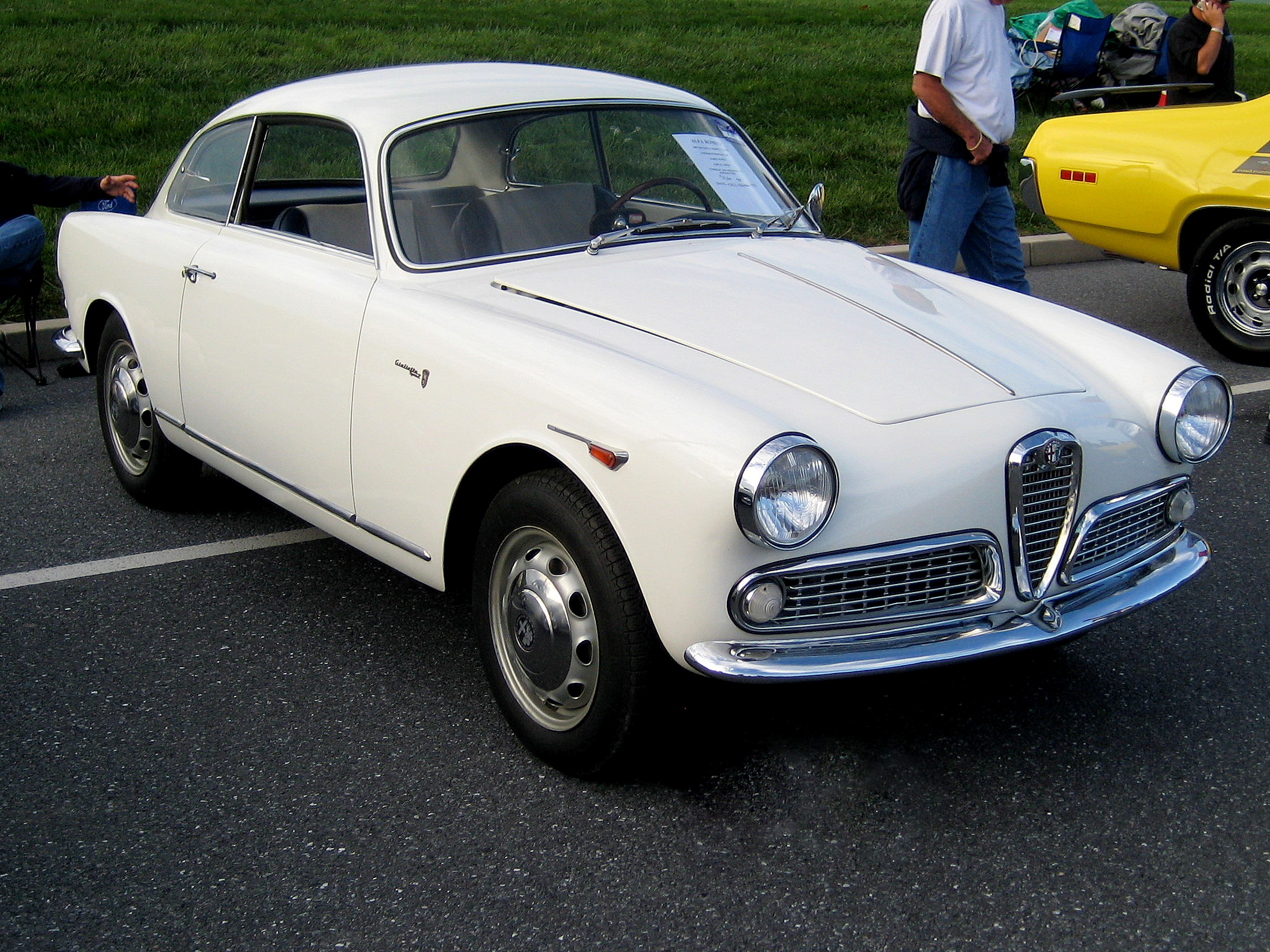 Seen in the "For Sale" Car Corral at the AACA Eastern Region Fall Meet, Hershey, Pennsylvania, October 2009.